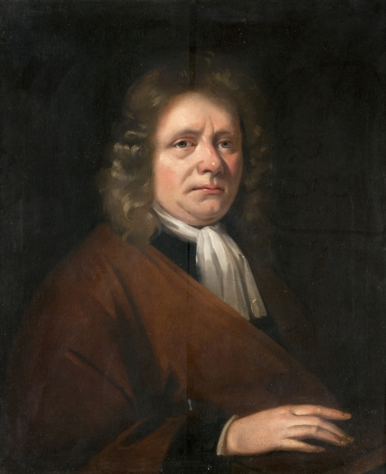 Portrait of William Carstares (1649–1715), minister of the Church of Scotland, and Principle of Edinburgh University.